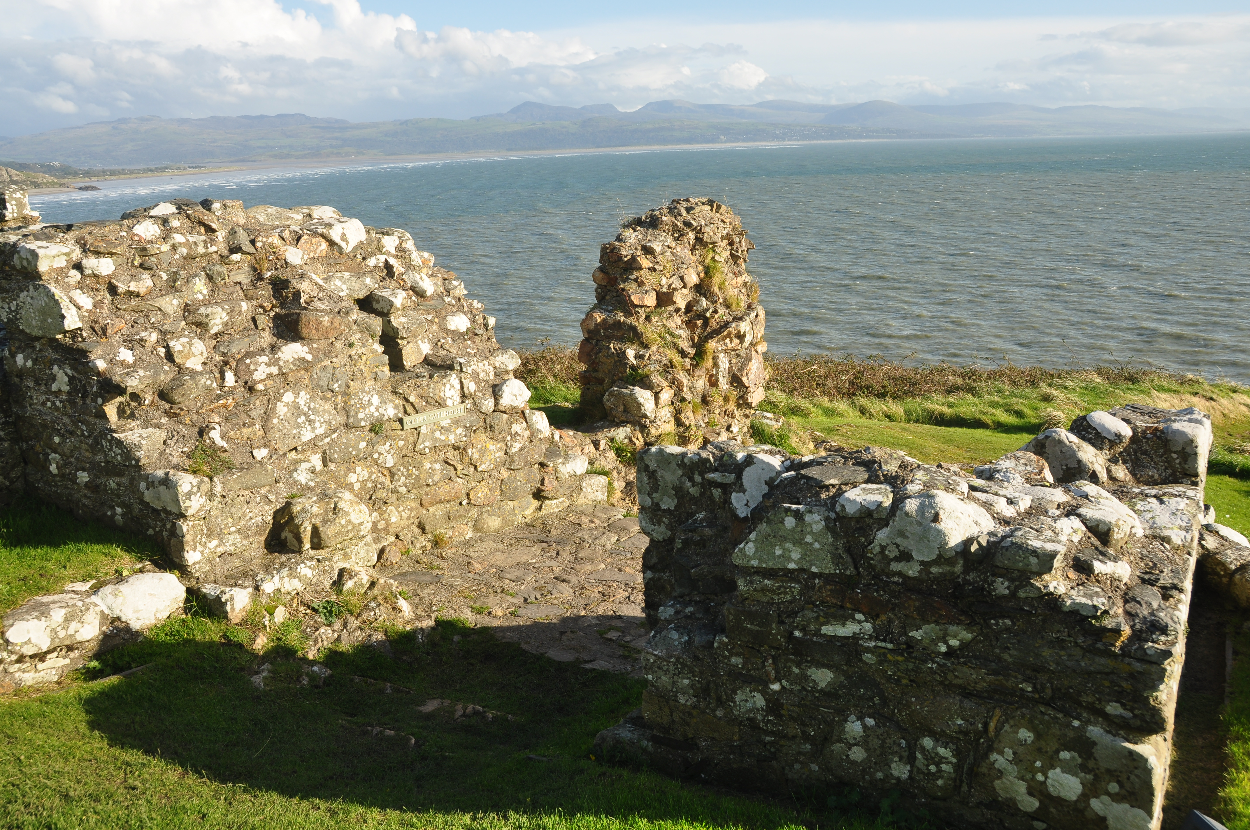 Criccieth Castle